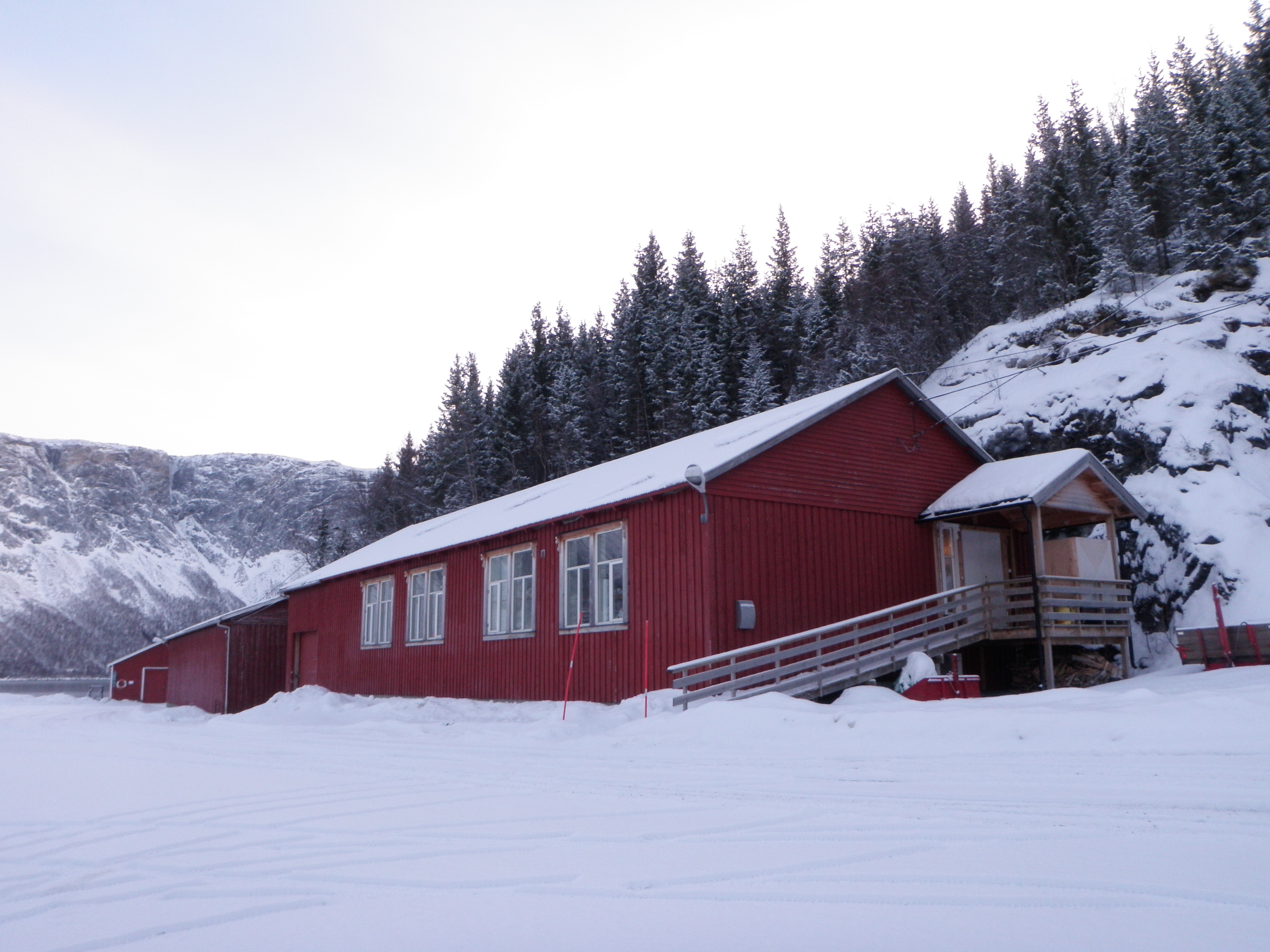 The artist's studio Atelier Tvervik in Tvervik in Beiarn, Norway.